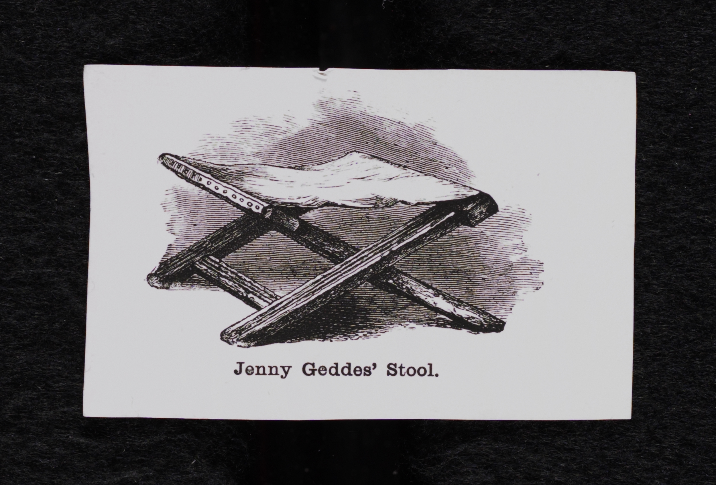 Small card showing Jenny Geddes' stool